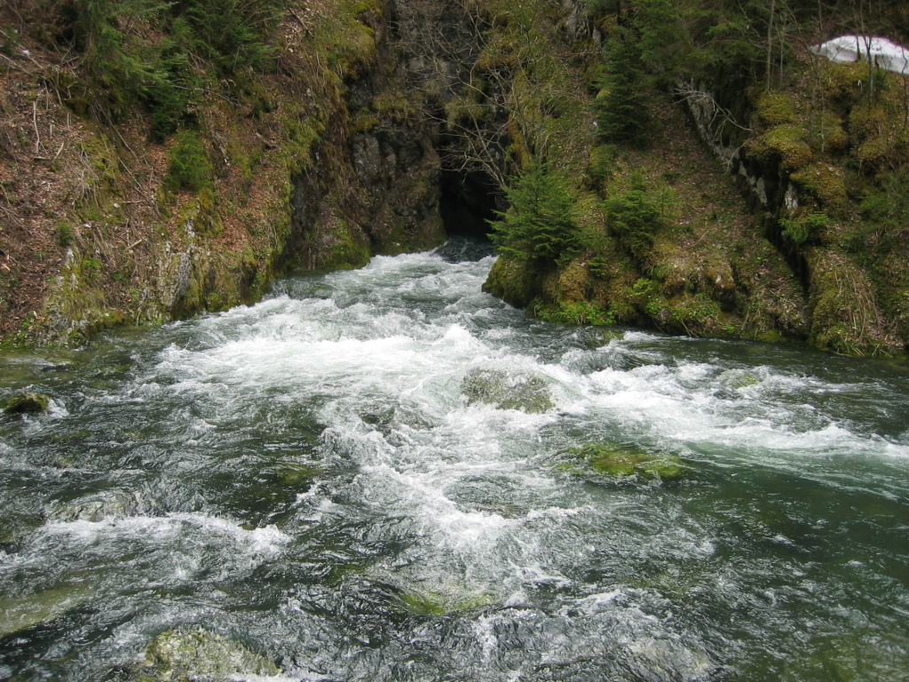 Karst spring of river Doubs in the Jura of France